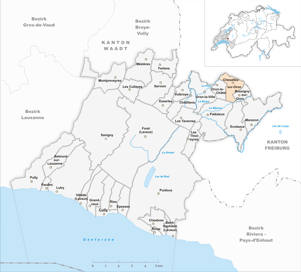 Municipality Chesalles-sur-Oron